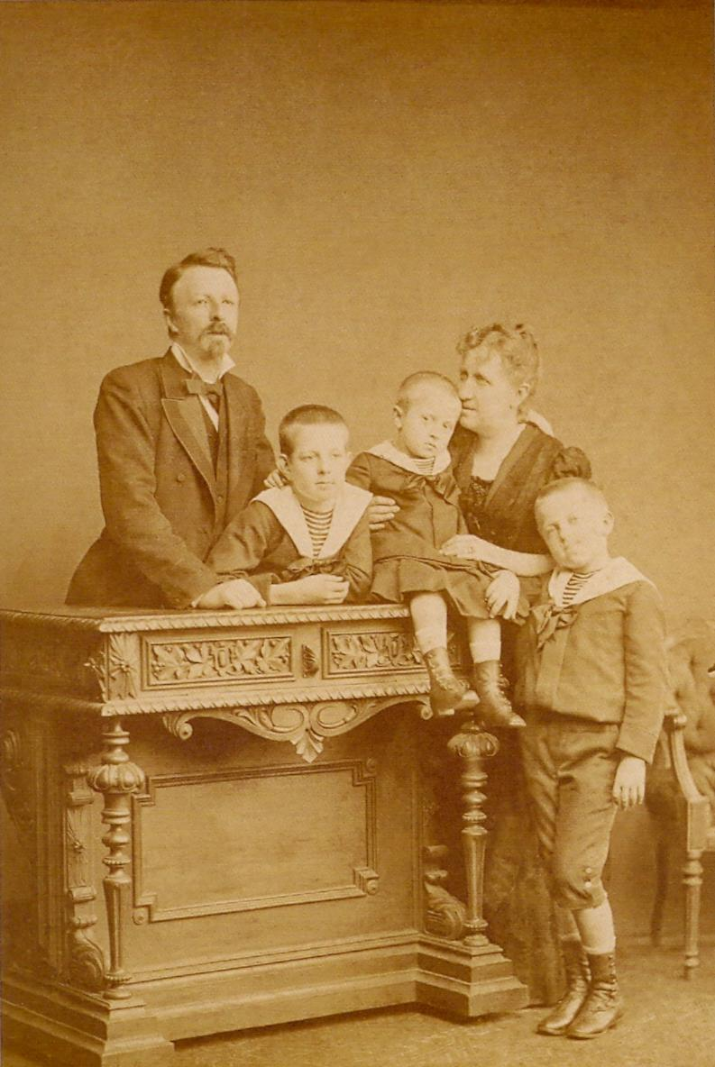 Isabel, Princess Imperial of Brazil, the count of Eu and their three children.